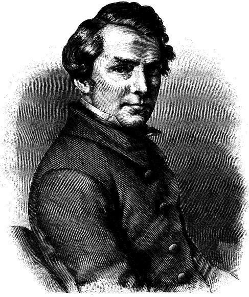 Lars Gabriel Branting (1799-1881), second head of the Swedish School of Sport and Health Sciences and a pioneer in Swedish physiotherapy